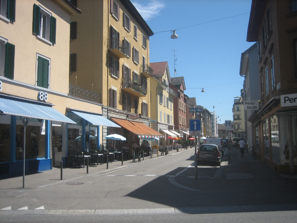 Corner Langstrasse / Brauerstrasse in Zürich, Switzerland